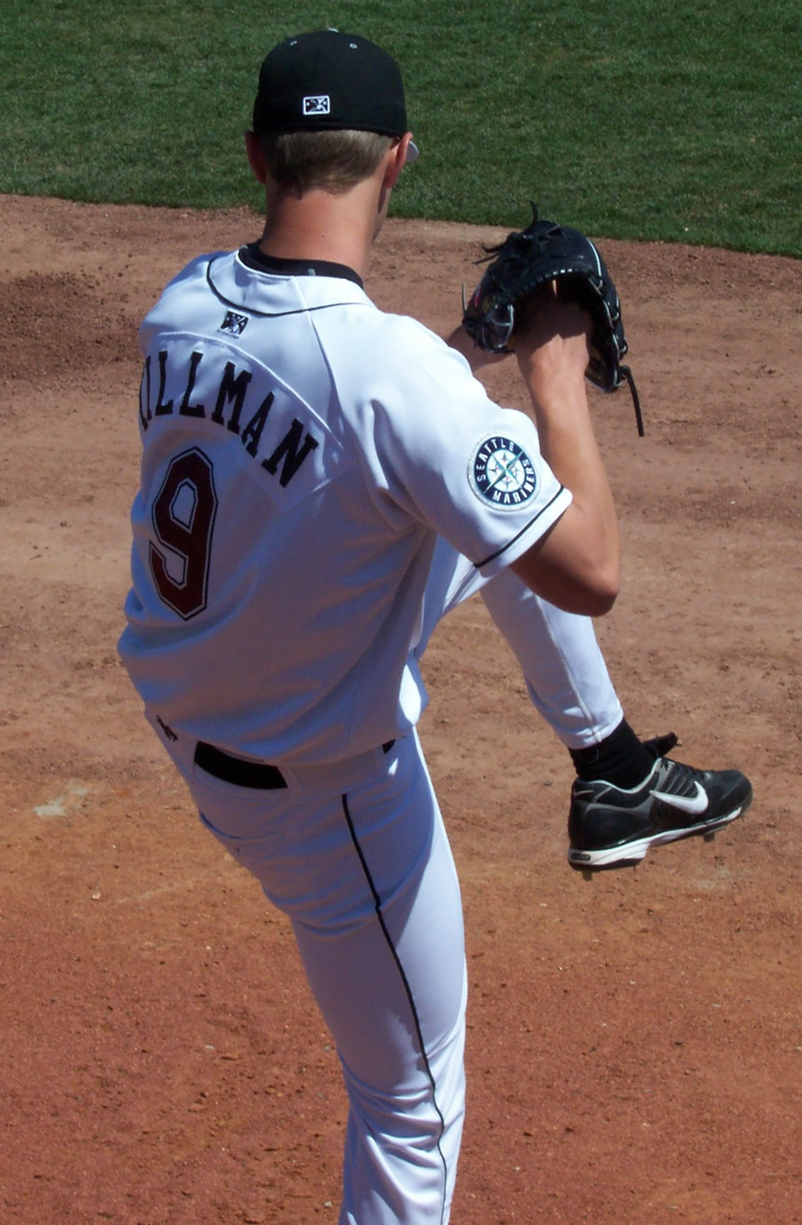 pitcher Chris Tillman, sample Wisconsin Timber Rattlers minor league baseball player warming up before a start.